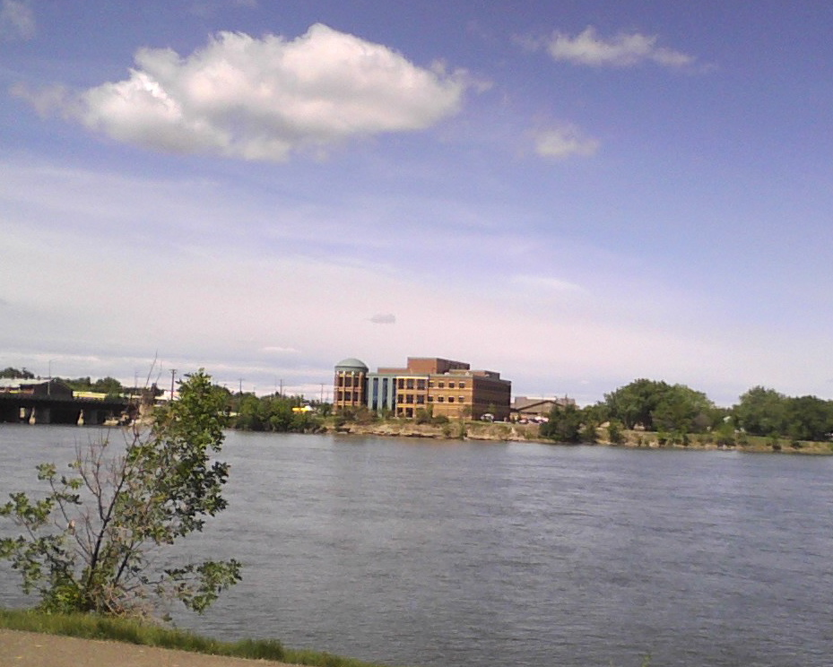 Missouri River Courthouse, in Great Falls, Montana. As viewed from River Drive, Missouri River in foreground.